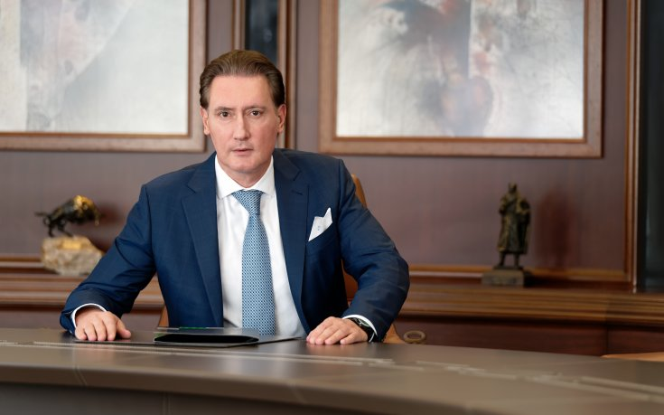 Kiril Domuschiev in his office